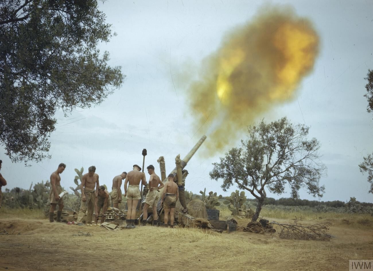 IWM caption : COLLABORATION OF ROYAL AIR FORCE SPITFIRES AND THE EIGHTH ARMY, TUNISIA, SPRING 1943. The gunnery officer has given the range to No 1 at the gun and the 4.5 inch gun fires on the target. This picture was taken 4 miles from the enemy lines.